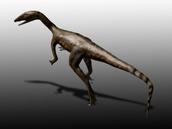 Tawa